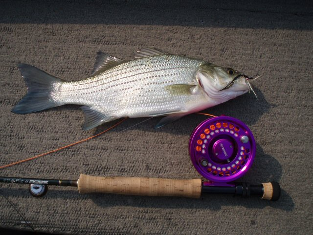 White Bass, Tallapoosa River, Alabama May 28th, 2007 (Released)